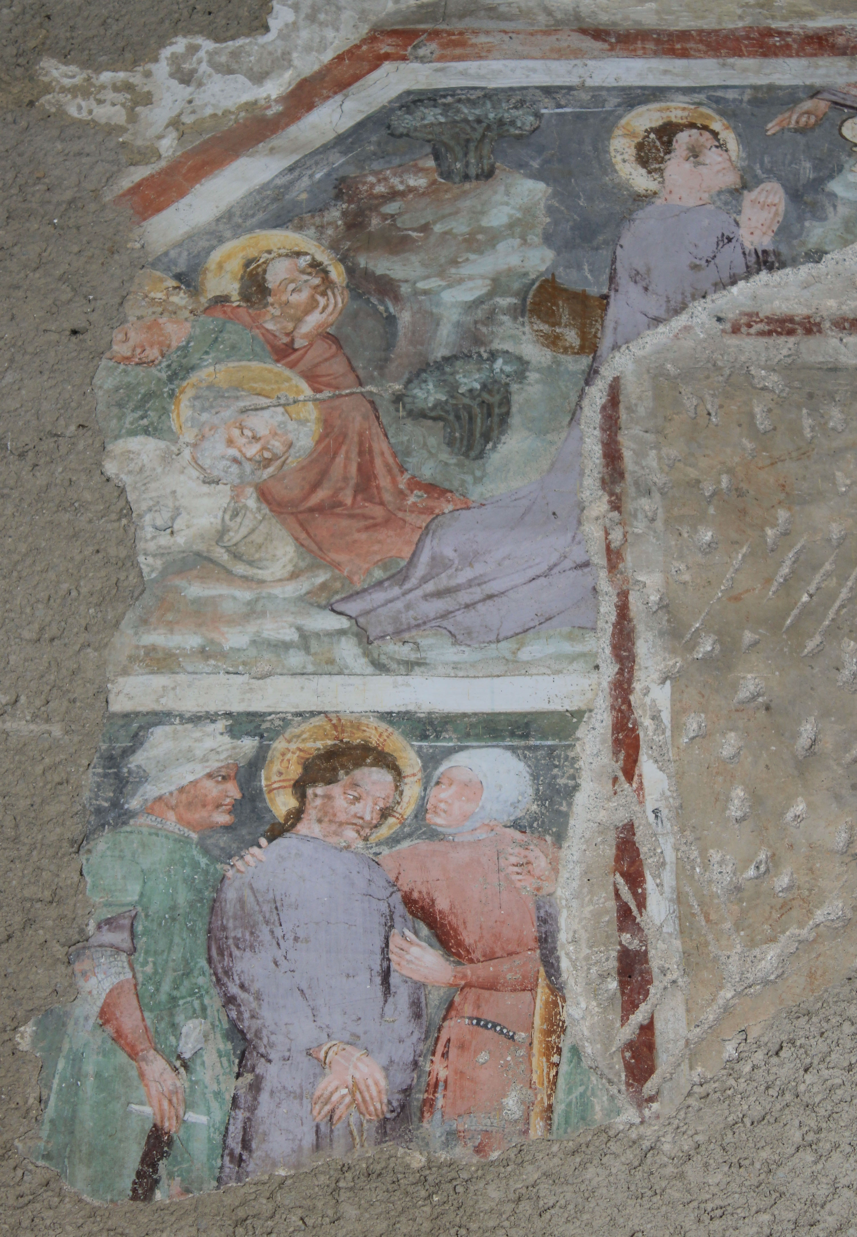 Church in Sankt Stefan in the community of Völkermarkt